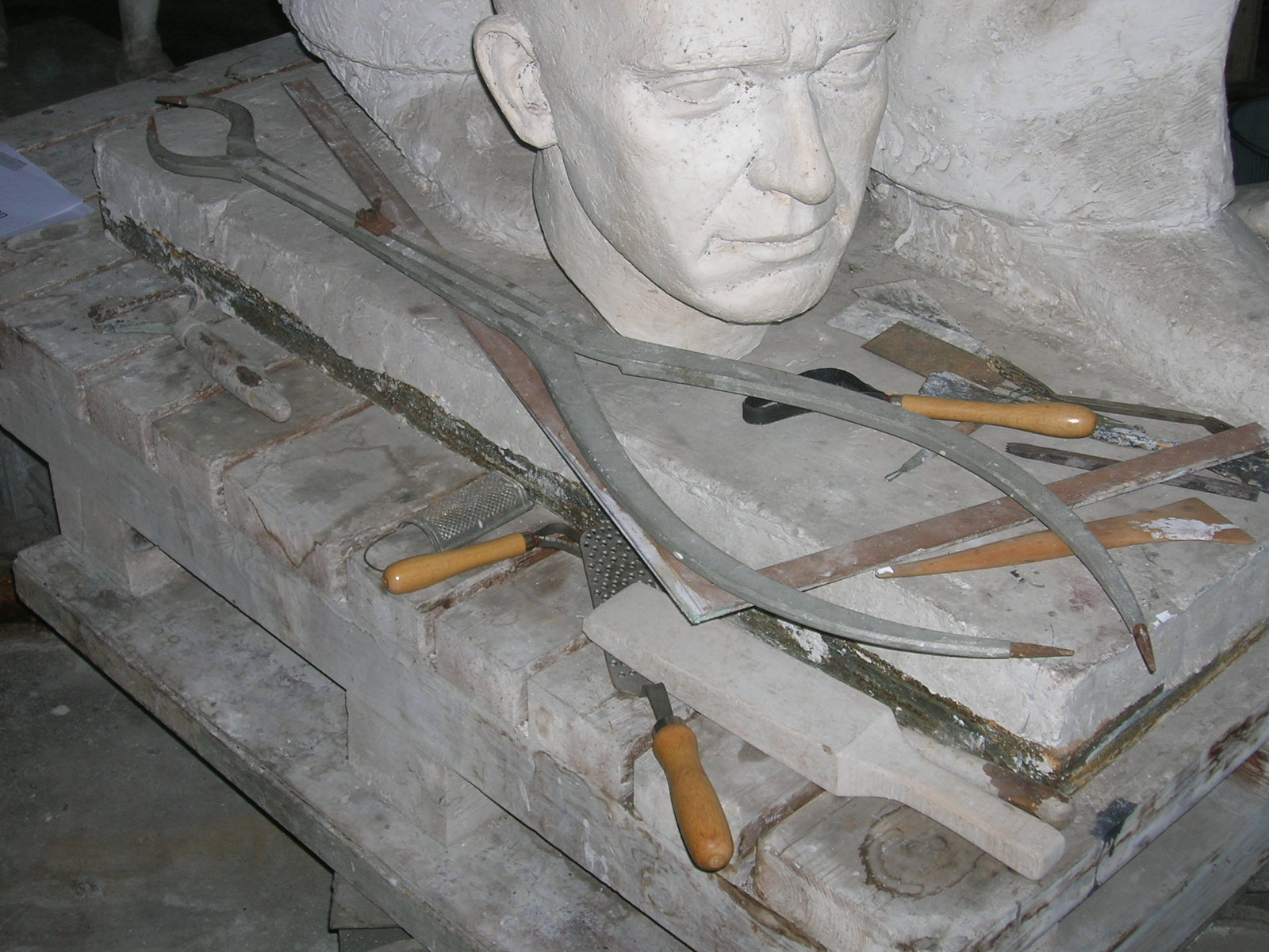 Sculptor tools of Arno Breker which Ruthild Hahne got from the GDR government. Taken by user:Mazbln on January 8, 2006. Permission granted by Dr. Stefan Hahne (son and copyright holder of the sculptor).